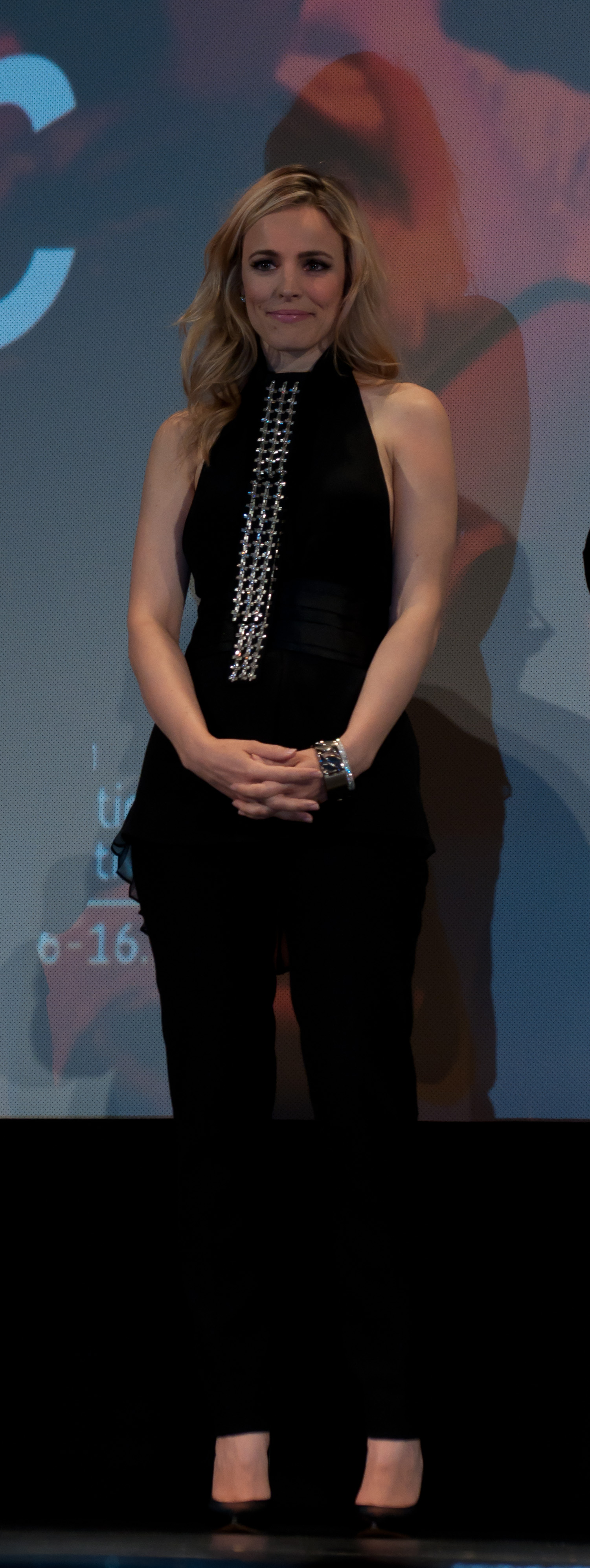 Rachel McAdams at the 2012 Toronto Film Festival during the North American premiere of Passion.